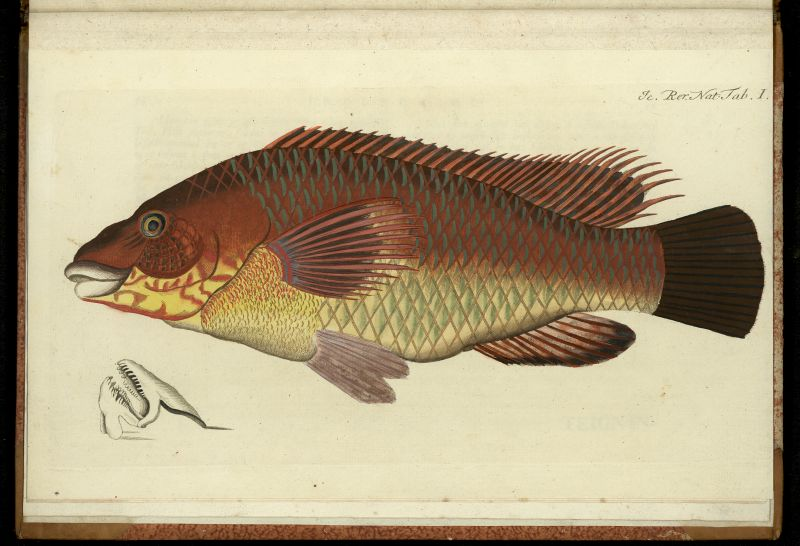 Table 1 in: Peder Ascanius: Icones rerum naturalium. Part V (København, 1806): Motiv: Berggylte